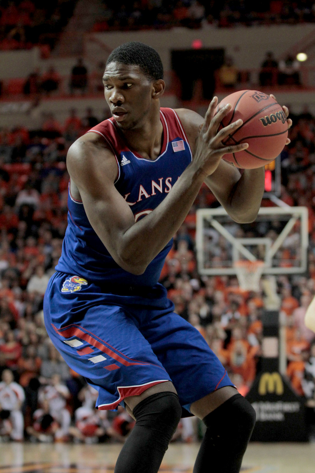 Joel Embiid